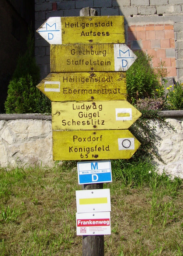 path signs in (Franconia)